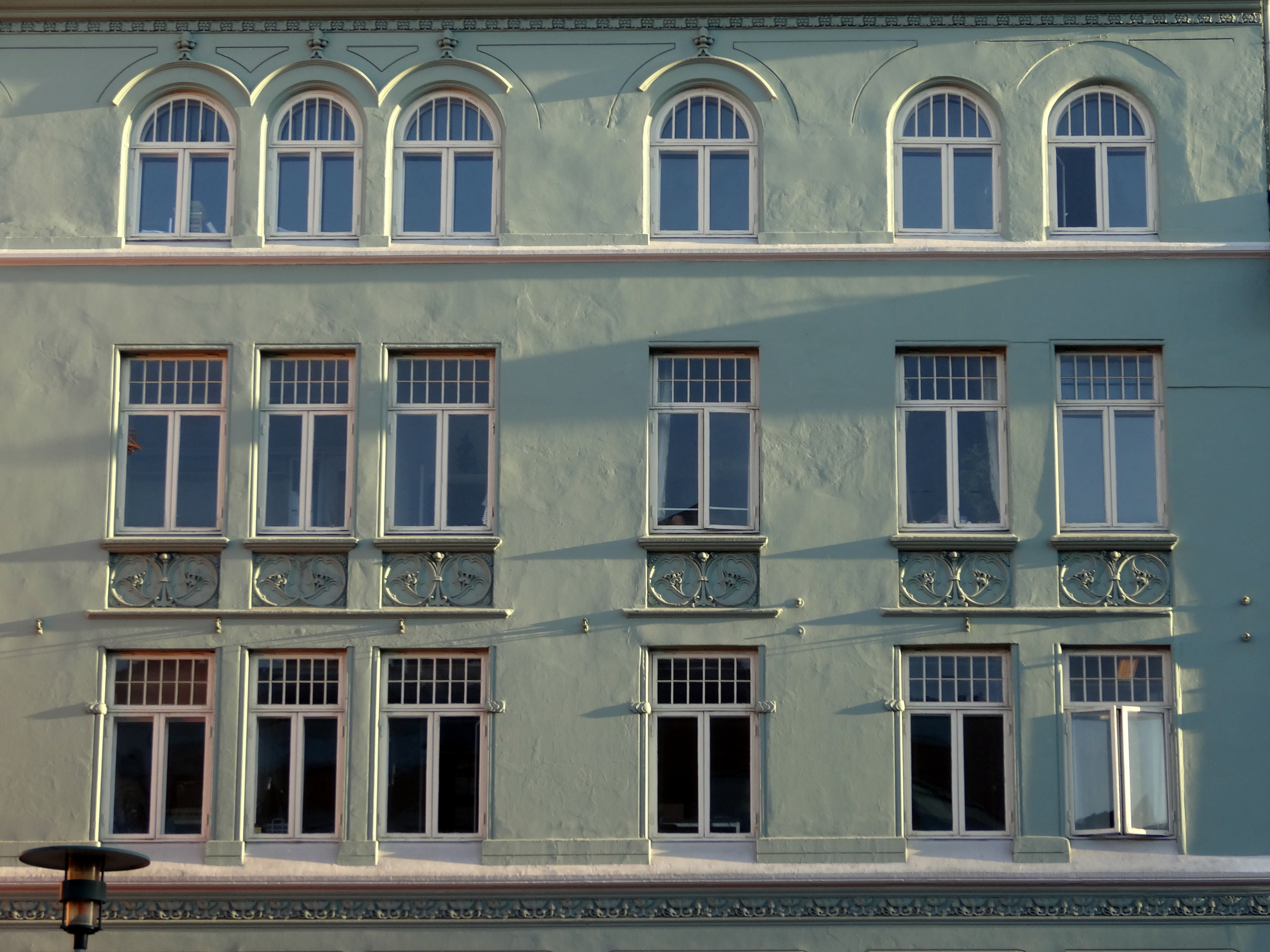 Facade of Stamnesgården, Rådhusgata 30 Oslo, Norway.